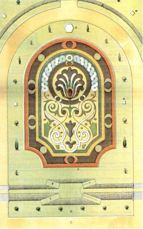 North parterre of Crewe Hall, Cheshire, designed by W. A. Nesfield in the 1840s